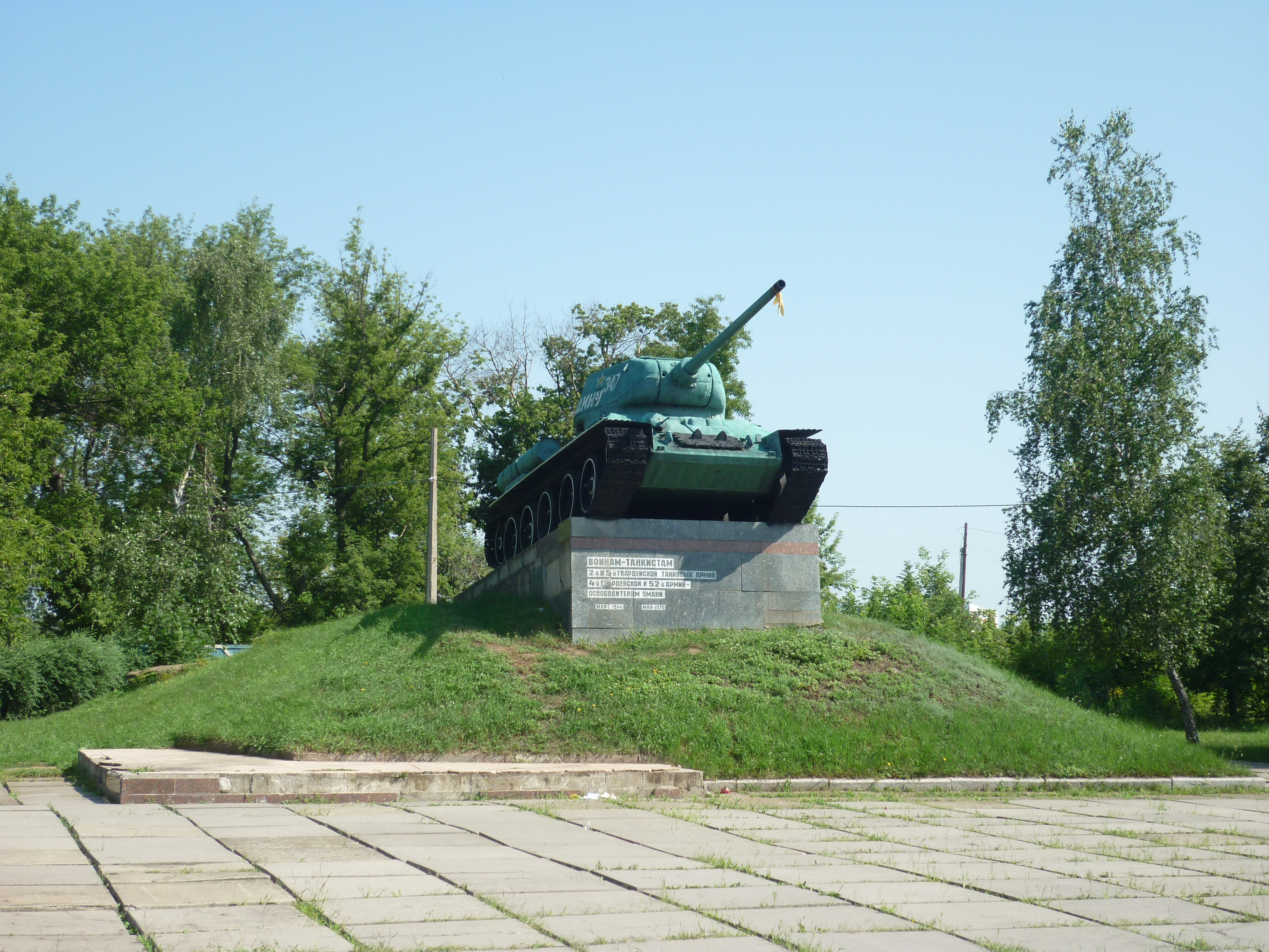 View of the Victory square and memorial to the liberators of the town of Uman.